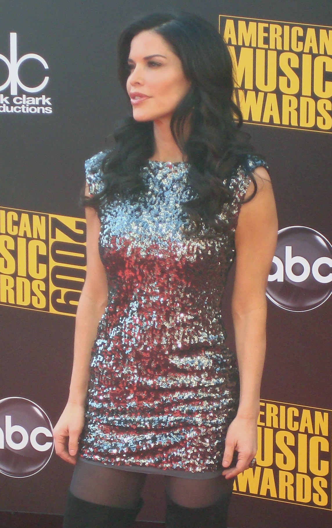 Lauren Sánchez at 2009 American Music Awards.